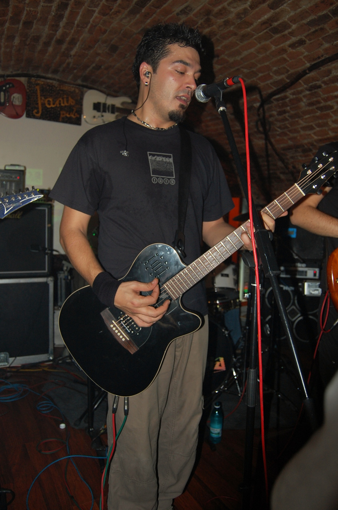 Adrian Despot in Cluj-Napoca